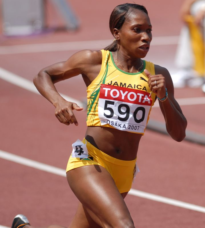 Novlene Williams during Worldchampionships 2007 in Osaka